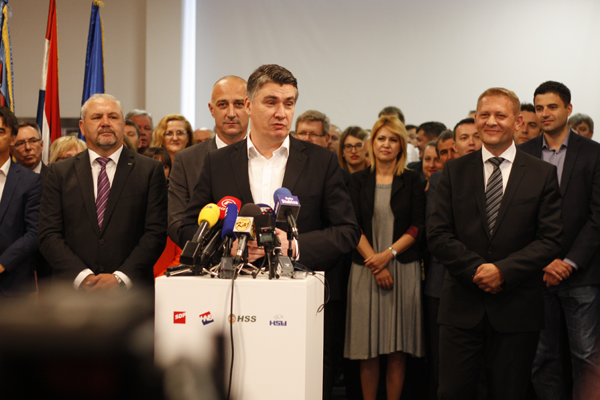 Leaders of People's coalition signing coalition agreement in Zabok